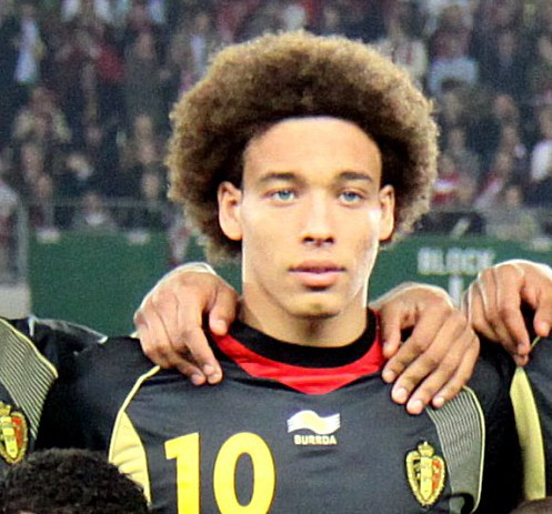 Belgium against the Austrian national football team (0:2), 2011-03-25 in Vienna (Ernst-Happel-Stadion